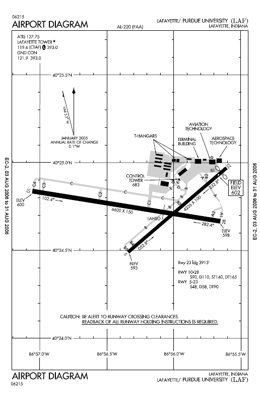 FAA diagram for Purdue University Airport (LAF) in West Lafayette, Indiana, United States.